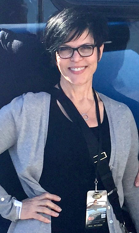 April Winchell on tour of Wayne Newton Museum in Las Vegas (photo by John Foley)